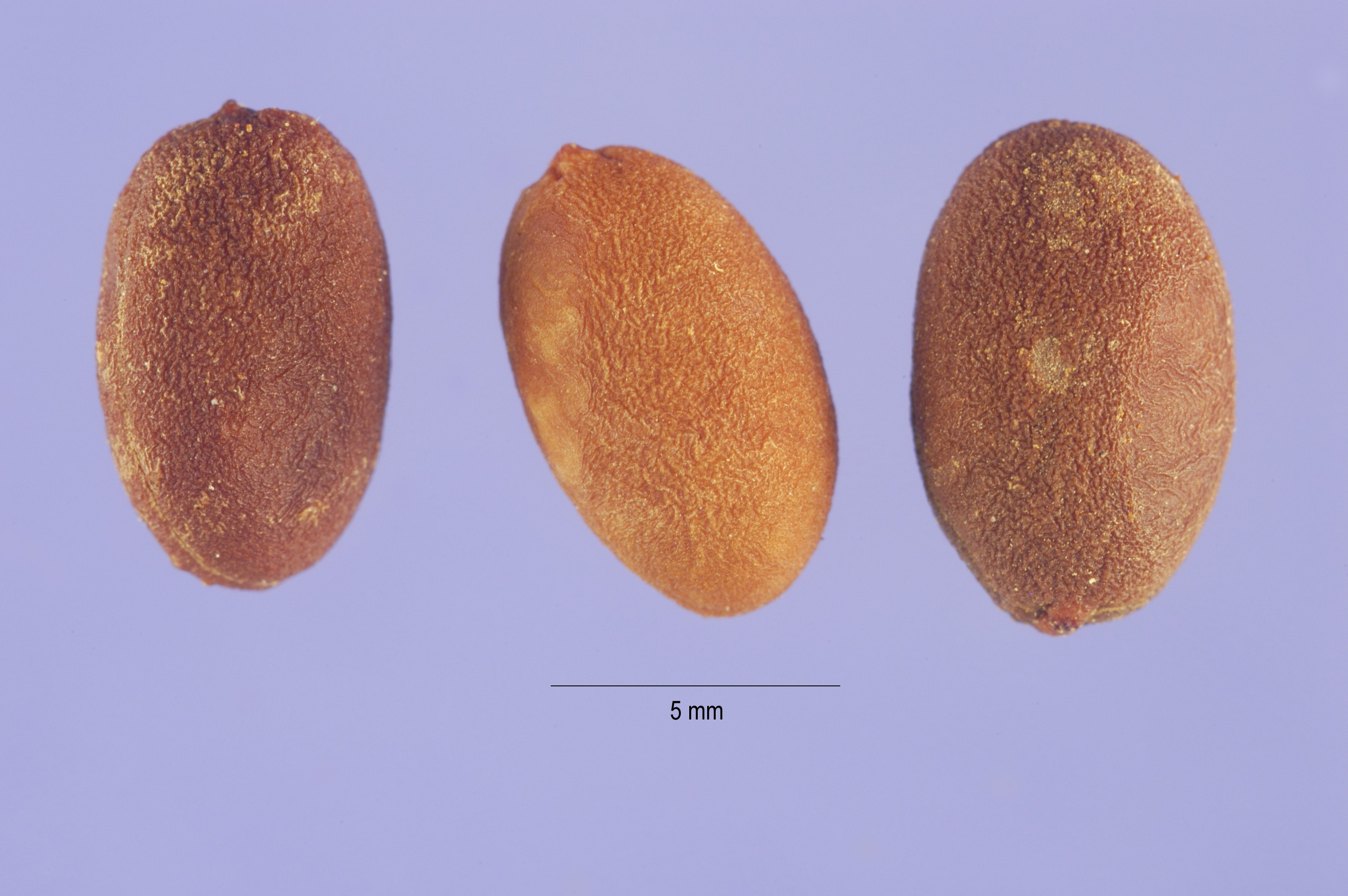 Seds of Jasminum dichotomum.